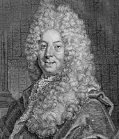 Portrait of Louis de Sacy (1654-1727), member of Academie Francaise